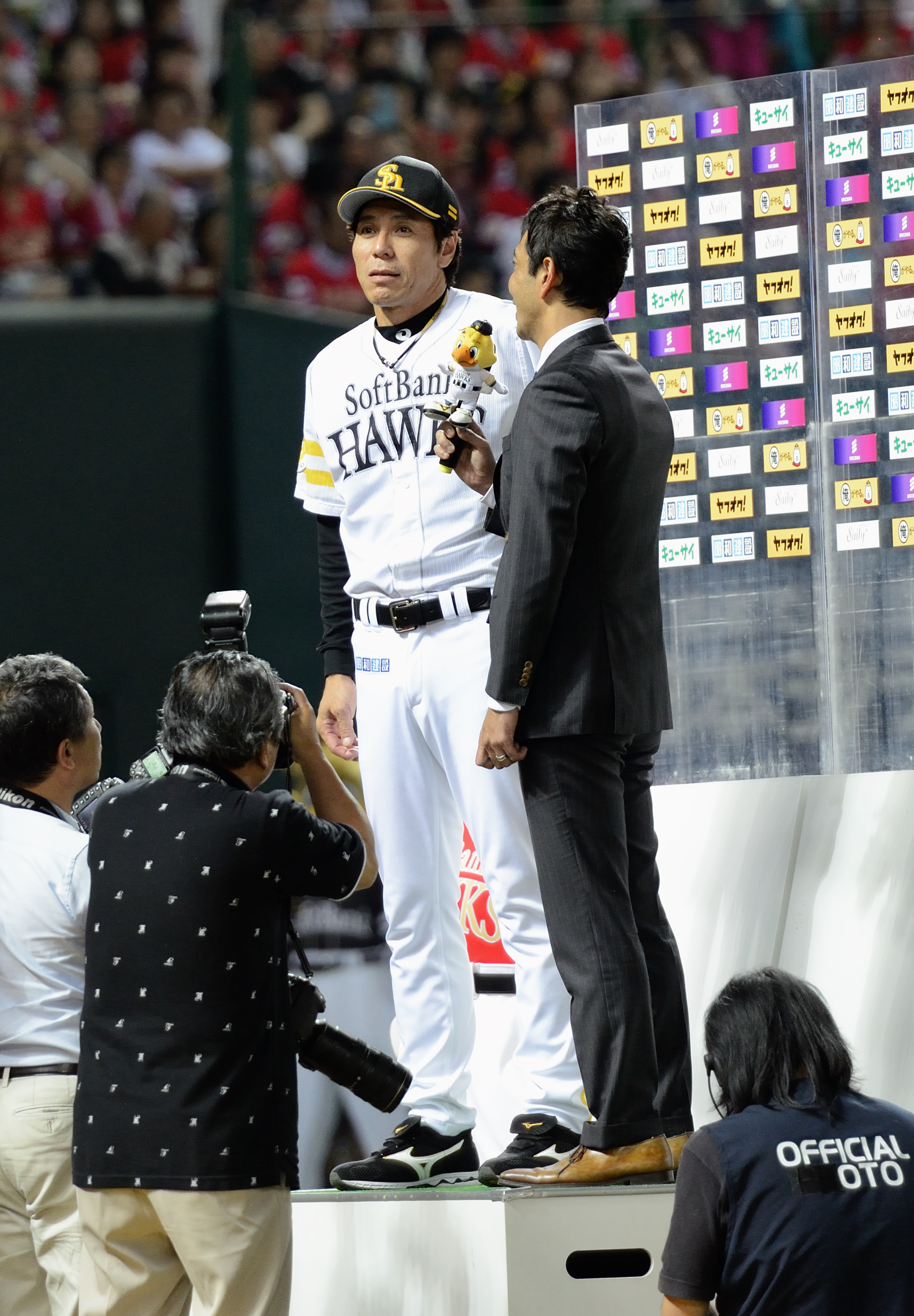 Koji Akiyama, manager of the Fukuoka SoftBank Hawks, at Fukuoka Dome.